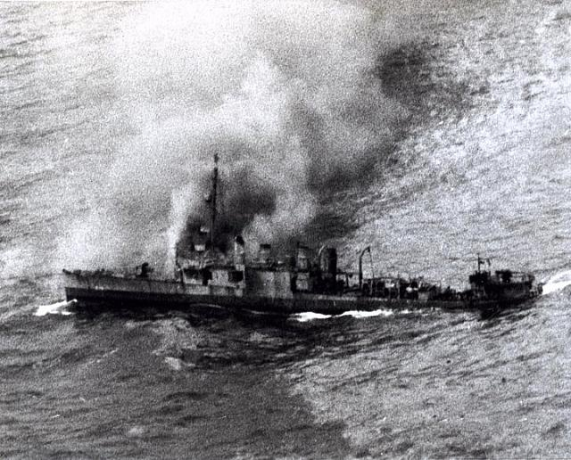 The U.S. Navy destroyer USS Borie (DD-215) sinking in the North Atlantic on 2 November 1943. Borie had been heavily damaged in a battle with the German submarine U-405 the night before. The U-boat sank and Borie was later sunk by a 500 lb (227 kg) bomb dropped by a Grumman TBF Avenger from the USS Card (CVE-11), piloted by Lt. (jg) Melvin H. Connley of Composite Squadron 9 (VC-9). Borie finally sank at 0955 hrs.